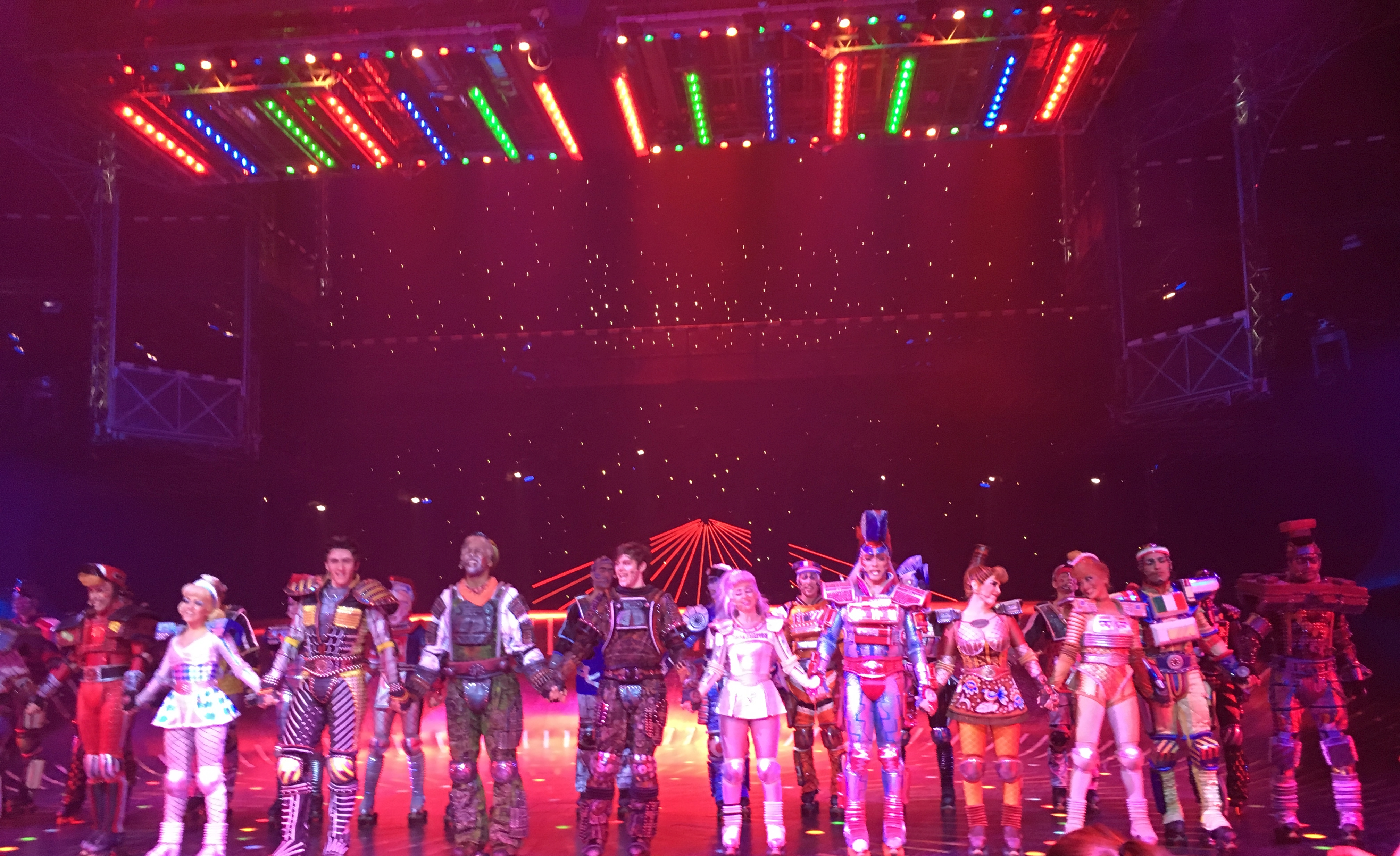 Musical Starlight Express in Starlight Express Theater, Bochum, Germany (April 2018) -- In the encore of the show, taking pictures and publishing them in the net is officially allowed.